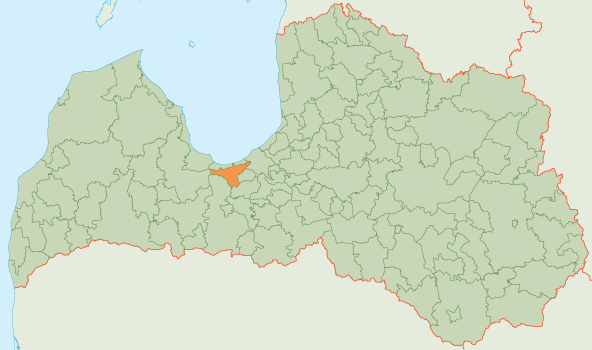 Map of Babīte